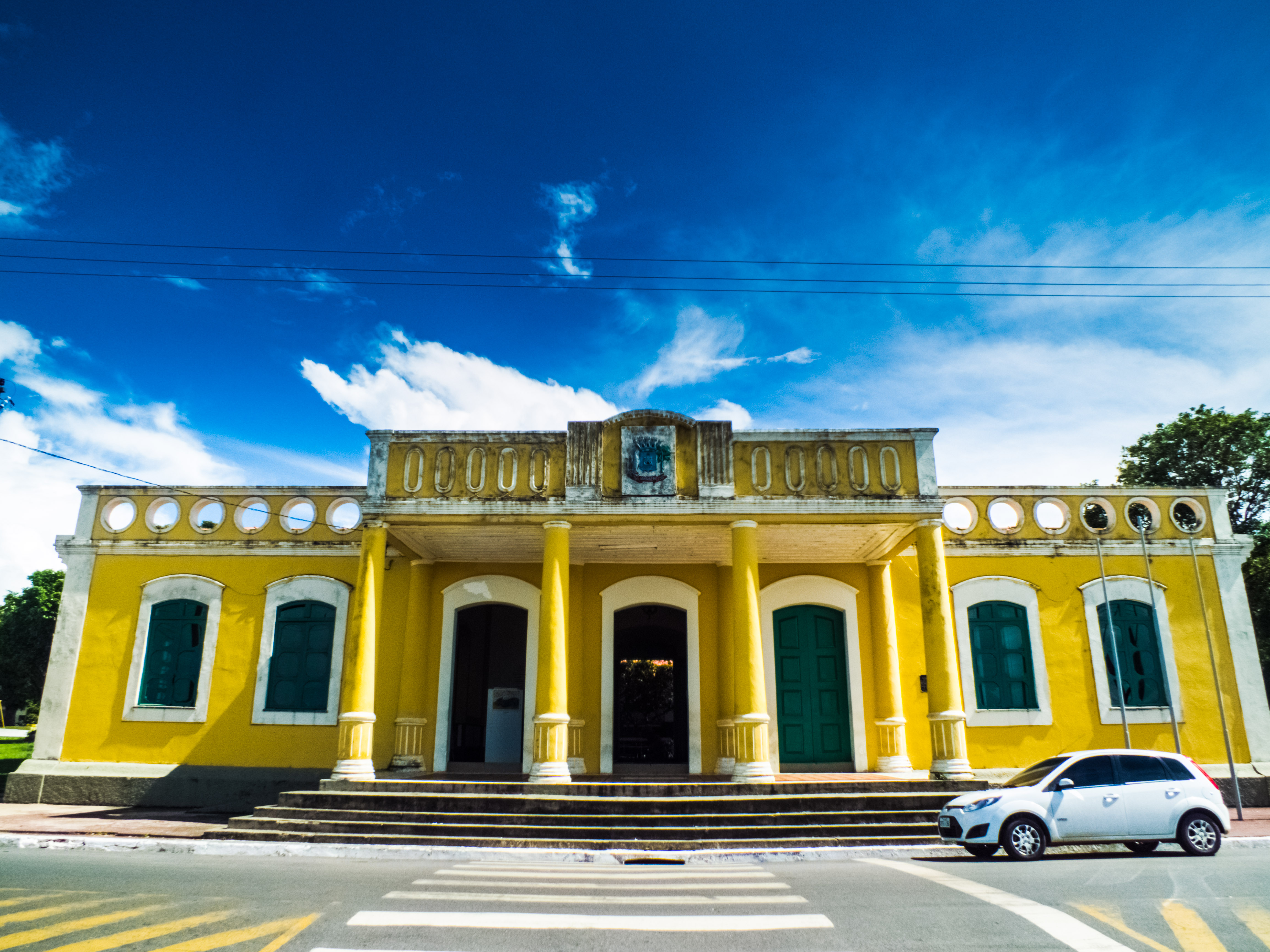 Centro Cultural João Fona. Santarém, Pará - Brazil